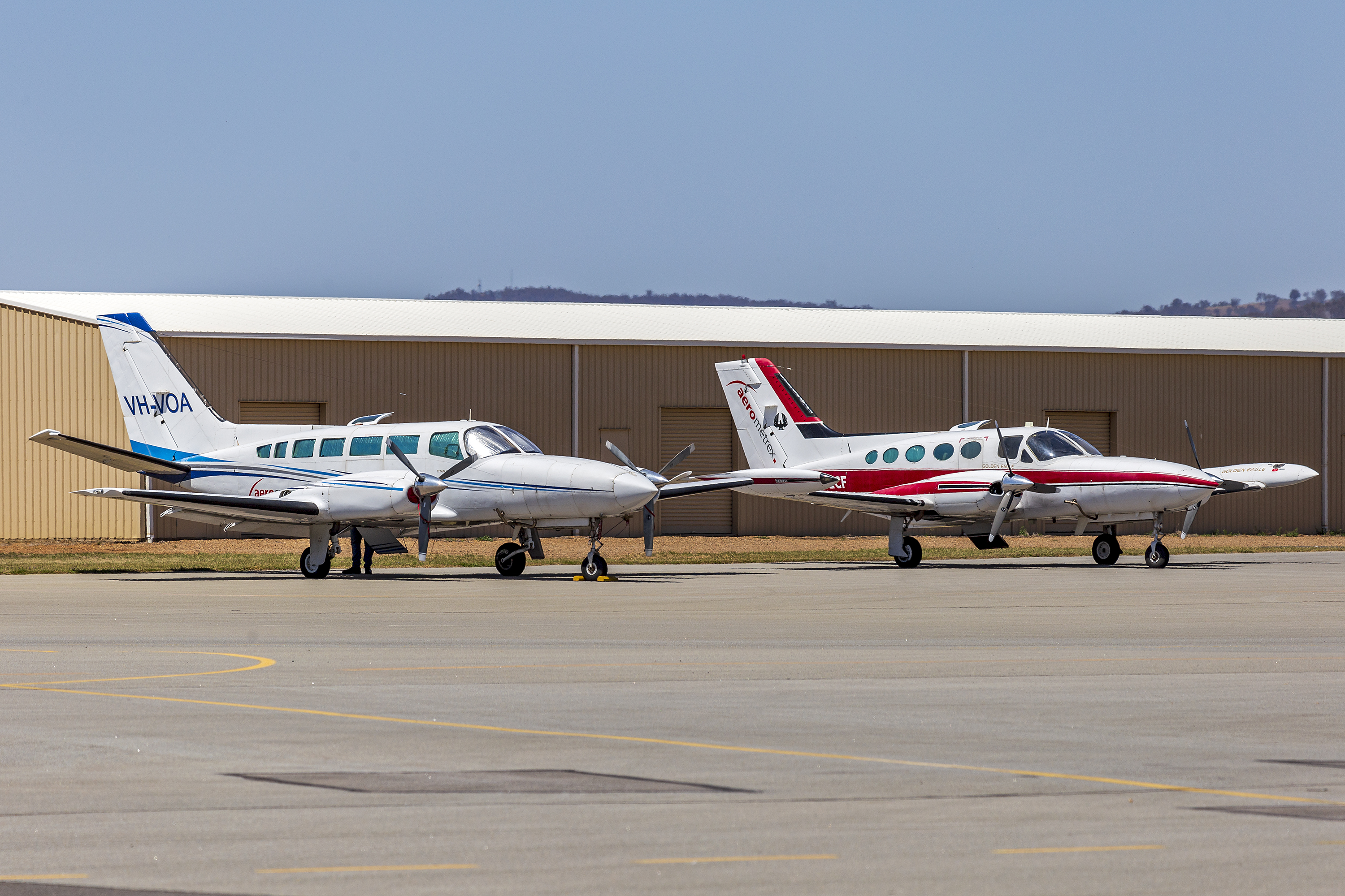 Aerometrex (VH-VOA) Cessna 404 Titan III and (VH-ECF) Cessna 421B Golden Eagle at Wagga Wagga Airport.